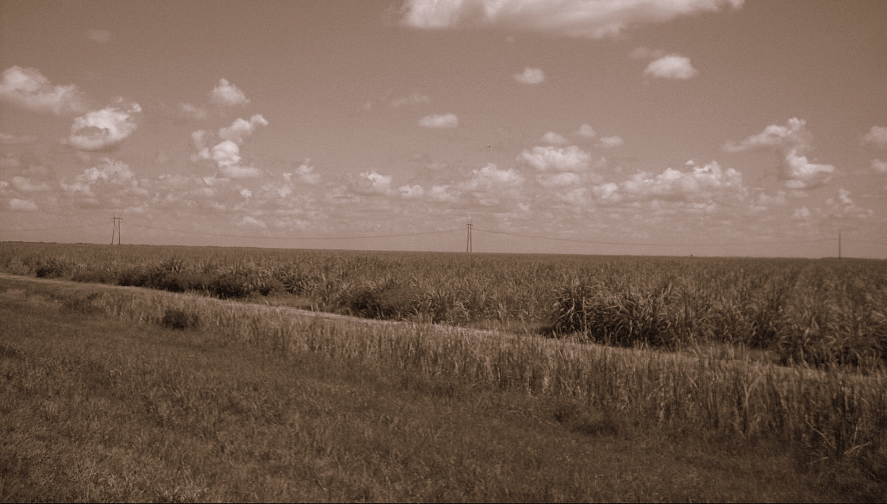 Under a blue Zimbabwean sky, a sugarcane plantation in Chiredzi stretches into the distance.